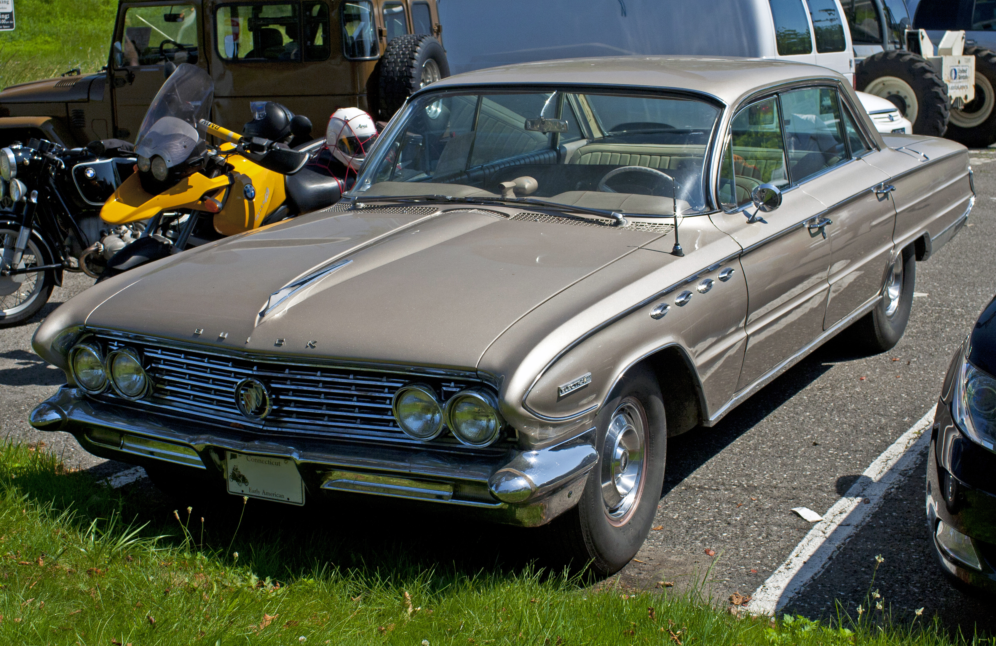 1961 Buick Electra 225 Riviera sedan, with four ventiports on the front fender - unique to the Electras. Taken in the parking lot of the 2012 Greenwich Concours d'Elegance